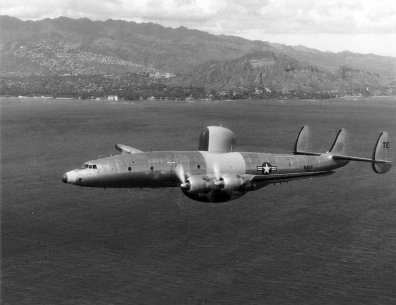 A U.S. Navy Lockheed WV-2 (EC-121K) Warning Star (BuNo 128323) in flight near Hawaii, on 16 April 1954.